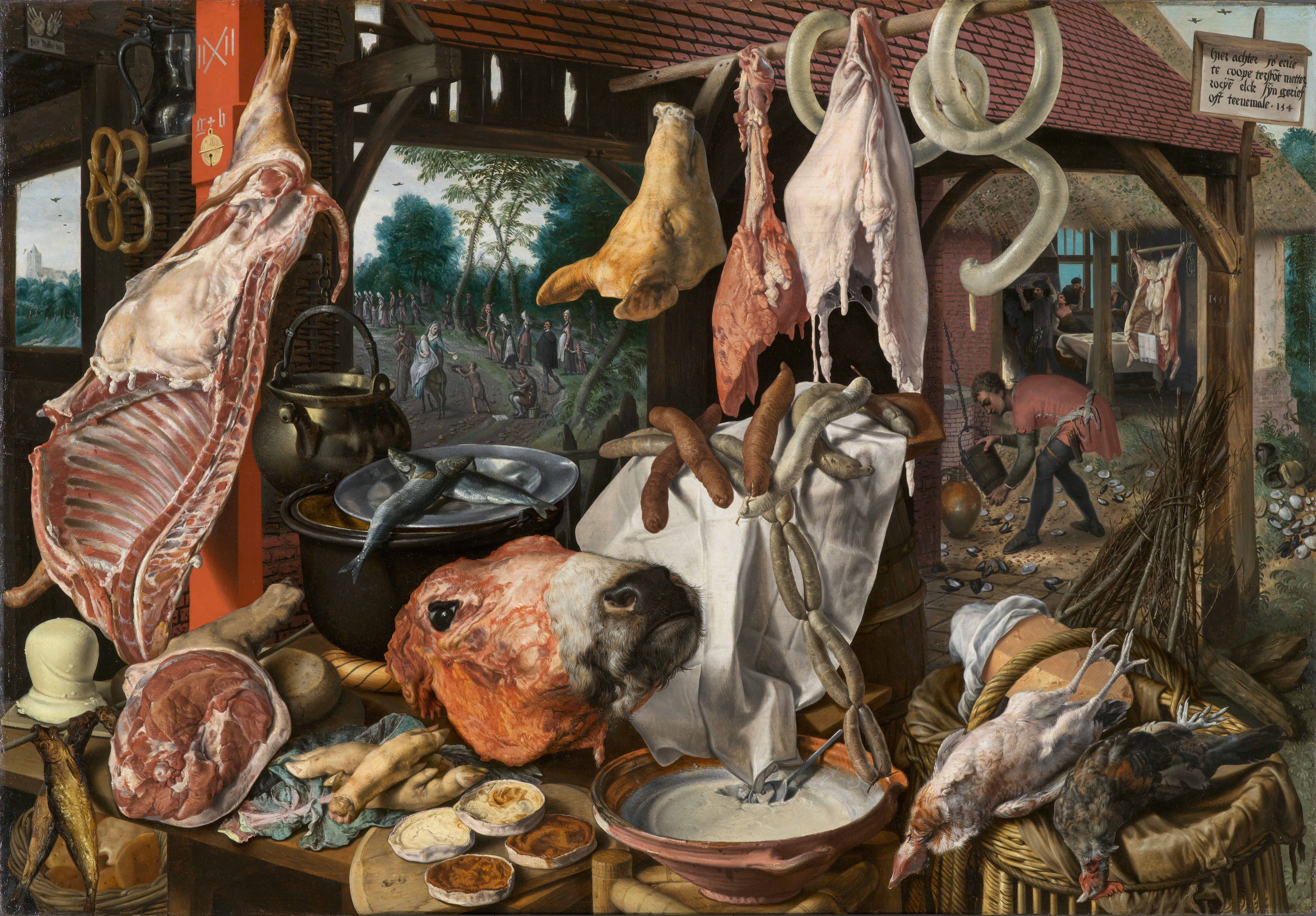 Holy Family distributing alms on their journey to Egypt to escape from Herod's harassment. Various foods – plates in the foreground, meats, ham, lard, smoked fish, pigs' legs and head, bread, butter, milk, cheese and hanging pretzels (in the left corner) – that has been spread out in front of the viewer. The various meats, including sausages, beef, fish, fowl and pork, are arranged on wooden tables, using baskets, pots and plates. A barrel and some wickerwork chairs serve as containers for the food items